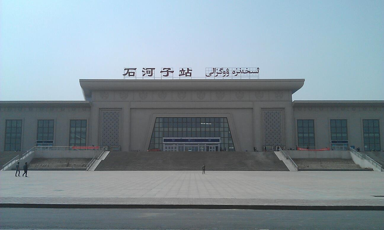 shihezi station